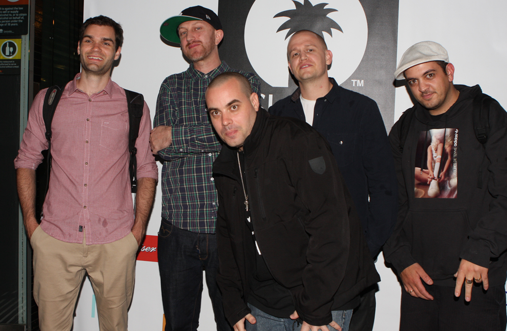 Hilltop Hoods: Universal Records and Island Records performing artists at Blue Beat club, Double Bay, Sydney Universal Records and Island Records performing artists at Blue Beat club, Double Bay, Sydney, Australia... A number of well known Sydney based celebrities braved the rain tonight to appear at the popular and luxurious Blue Beat nightclub at posh Double Bay. Celebs in attendance included Hilltop Hoods, Boy and Bear, Brian McFadden, Tim Hart and Ricki-Lee, but no international celebs despite earlier media rumours tipping otherwise. The bar was busy so we're guessing the club made a tidy profit tonight. Well done to Universal Records, Island Records and Blue Beat for putting on a good night, and here's to more international celebrities next time... wet weather or not. Websites Blue Beat official website Brian McFadden official website Boy and Bear official website Eva Rinaldi Photography Flickr Eva Rinaldi Photography Music News Australia